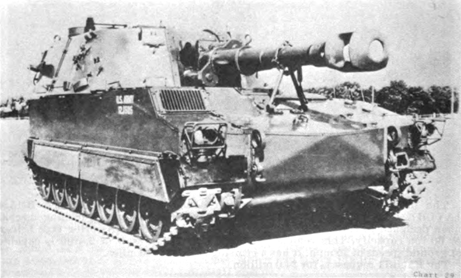 M109, 155mm, Self-propelled Howitzer. The M109 Howitzer provides direct and general artillery support for armor and mechanized forces